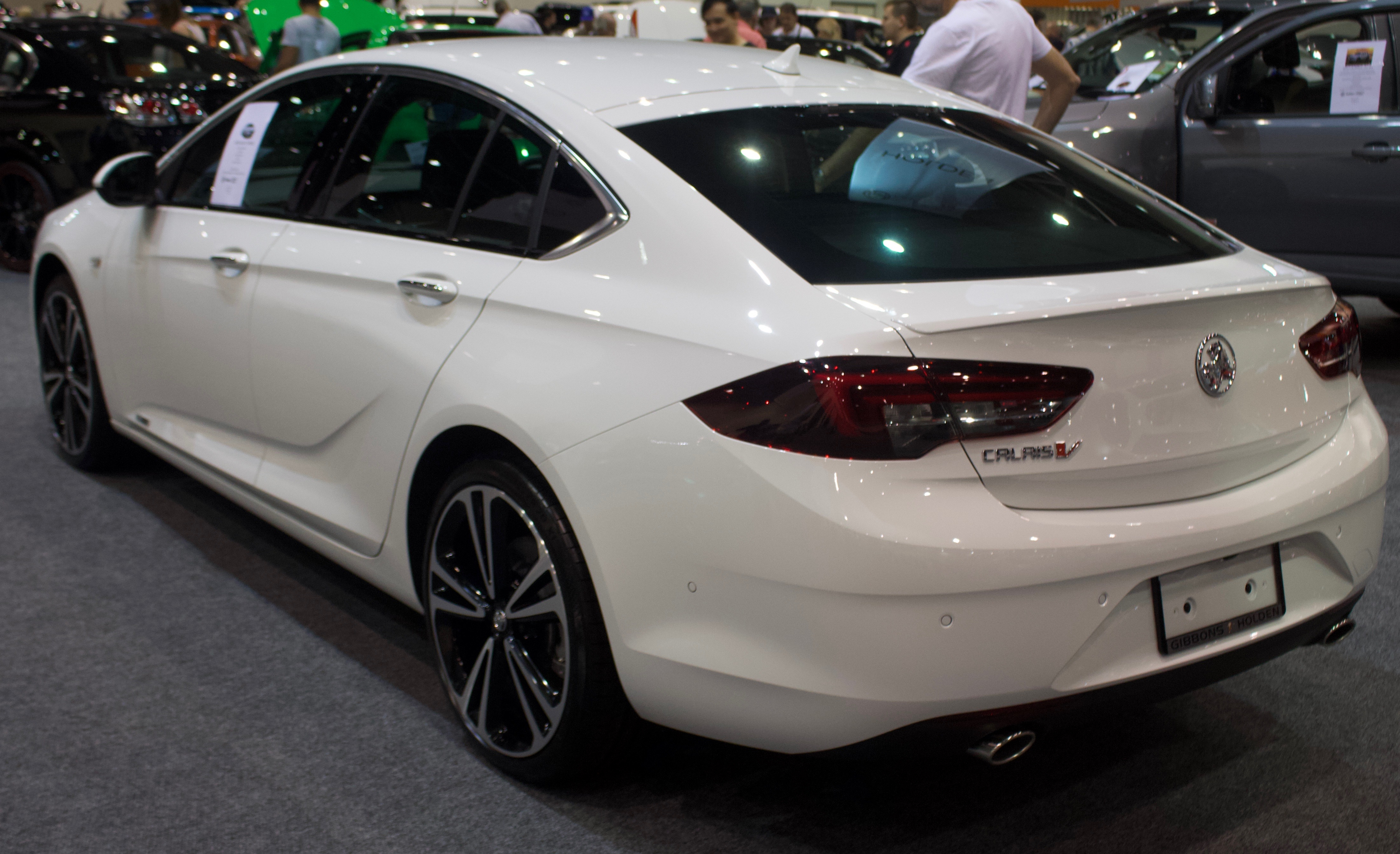 2018 Holden Commodore (ZB MY18) Calais V sedan. Photographed at the 2018 Motor Pavilion at Perth Convention and Exhibition Centre, Perth, Western Australia, Australia.